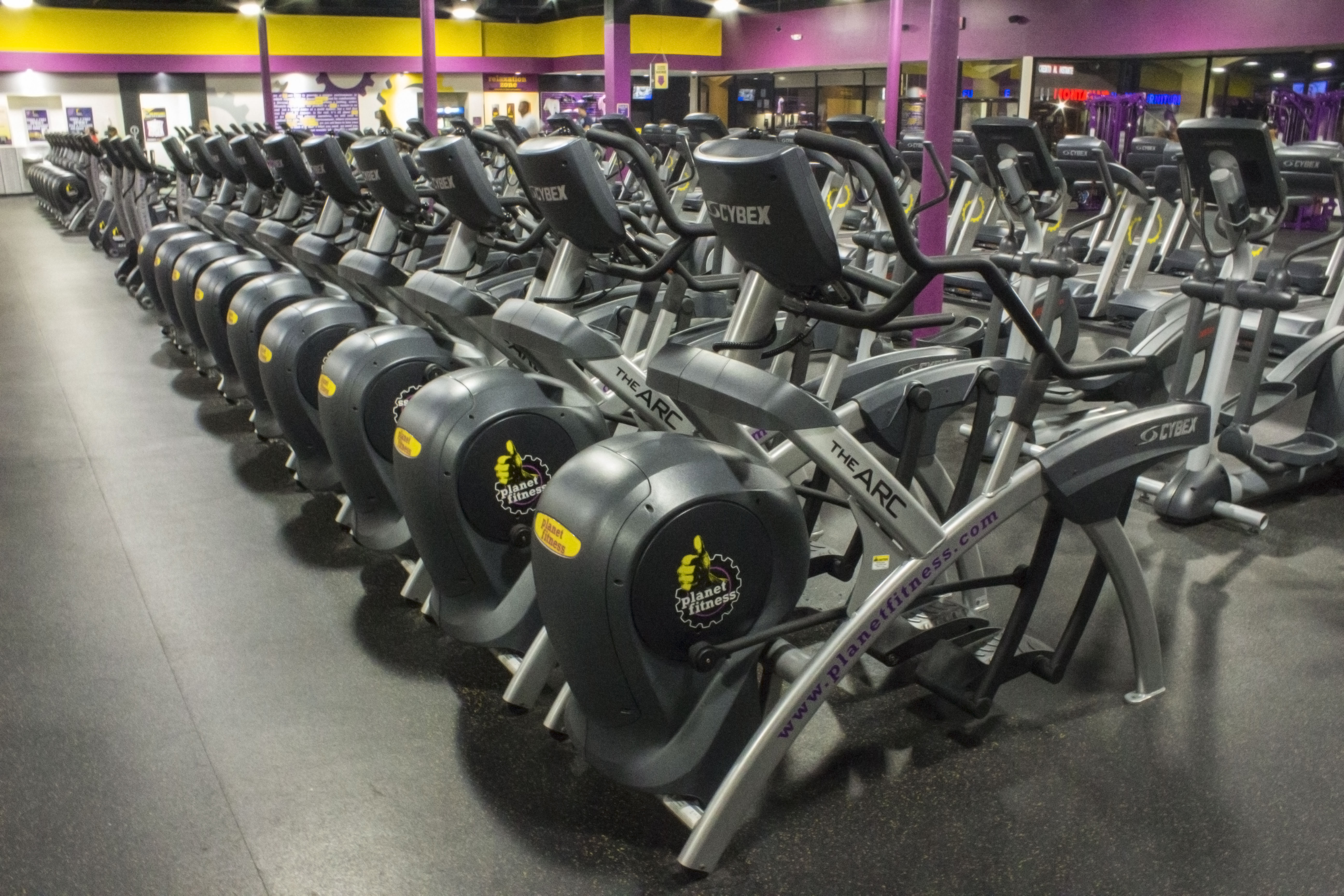 A row of Cybex Arc Trainers at a Planet Fitness in Spring Branch, Houston, Texas